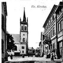 Langenlonsheim, Postkarte von 1902, akpool 112005